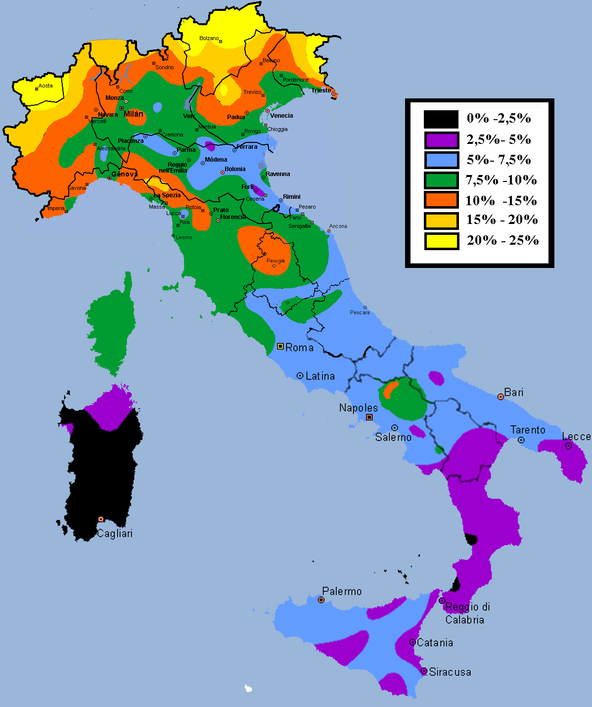 Percentage of Blond Hair in the italian regions